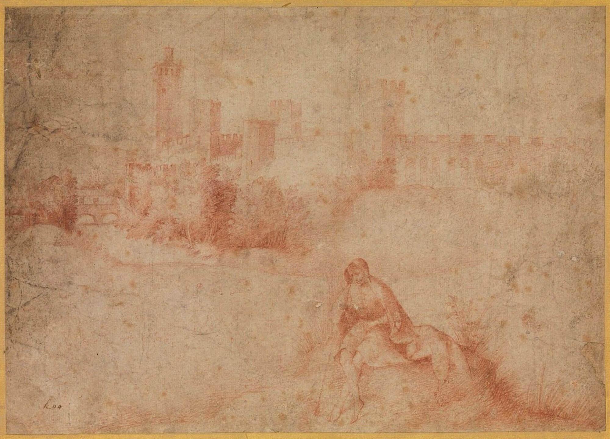 A View of the Castel San Zeno, Montagnana